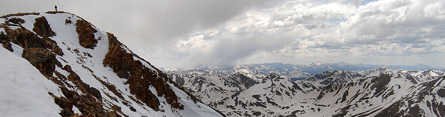 Mount Elbert, Colorado in June